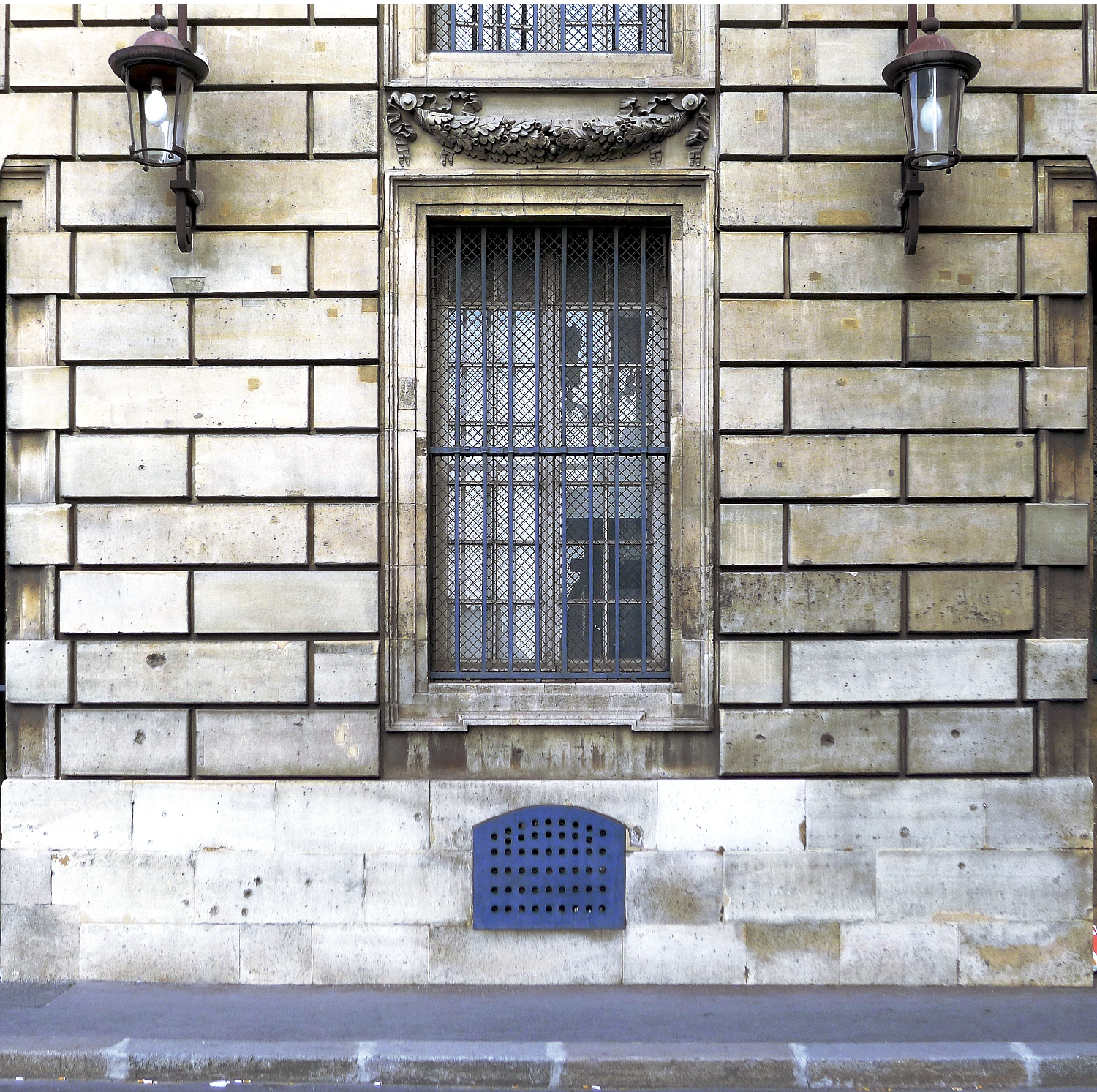 Saint-Florentin street - Paris